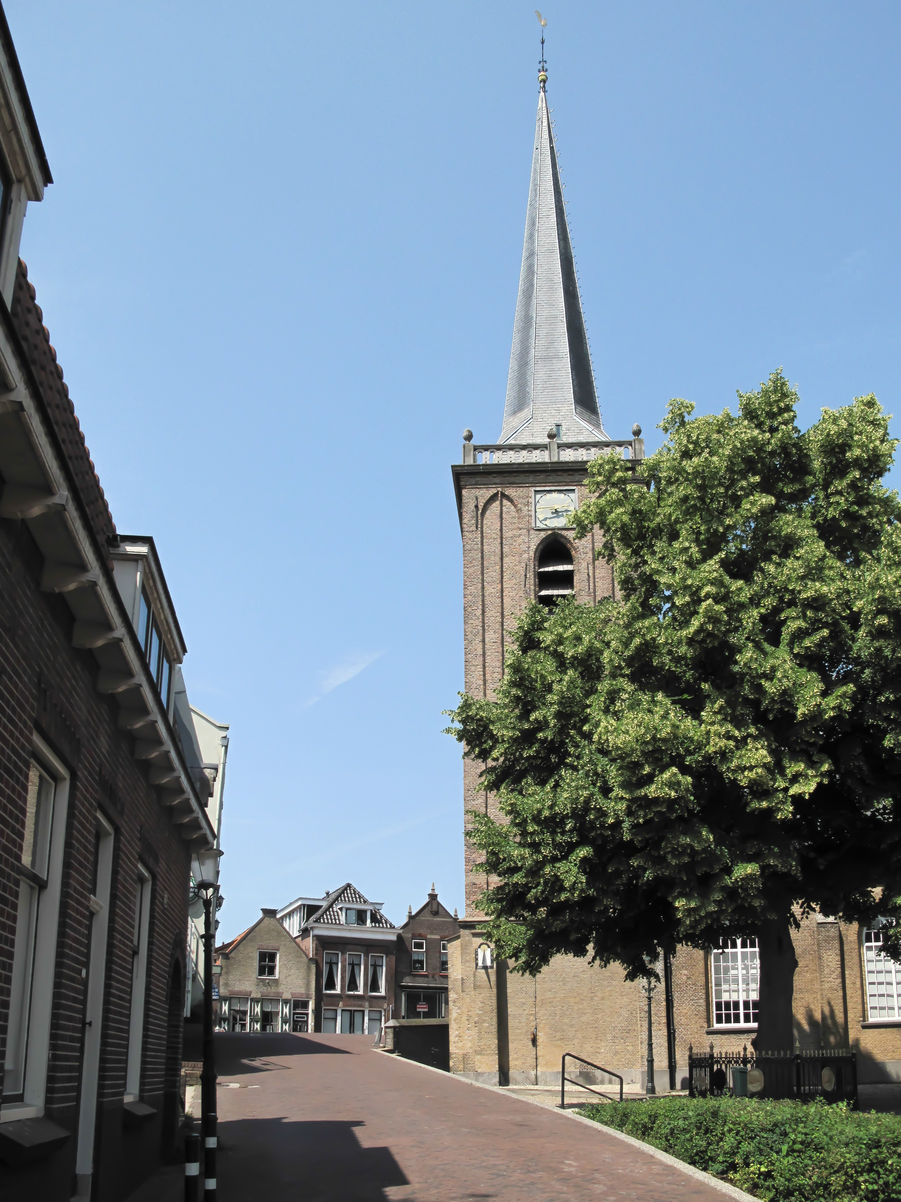 Ouderkerk ad IJssel, reformed church